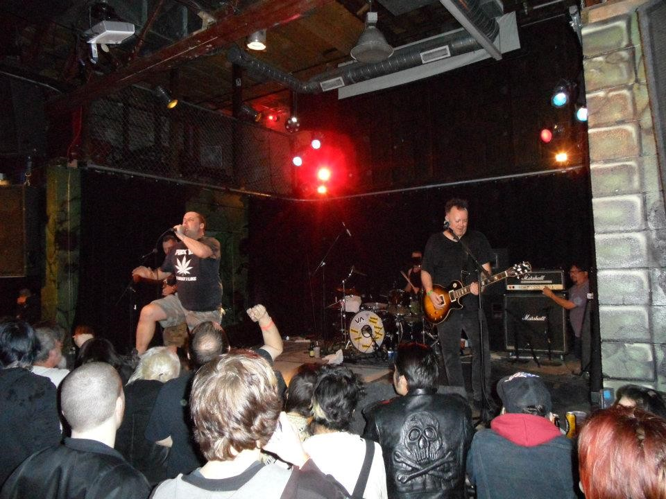 Live at Reggie's Rock Club, Chicago 3/29/2012